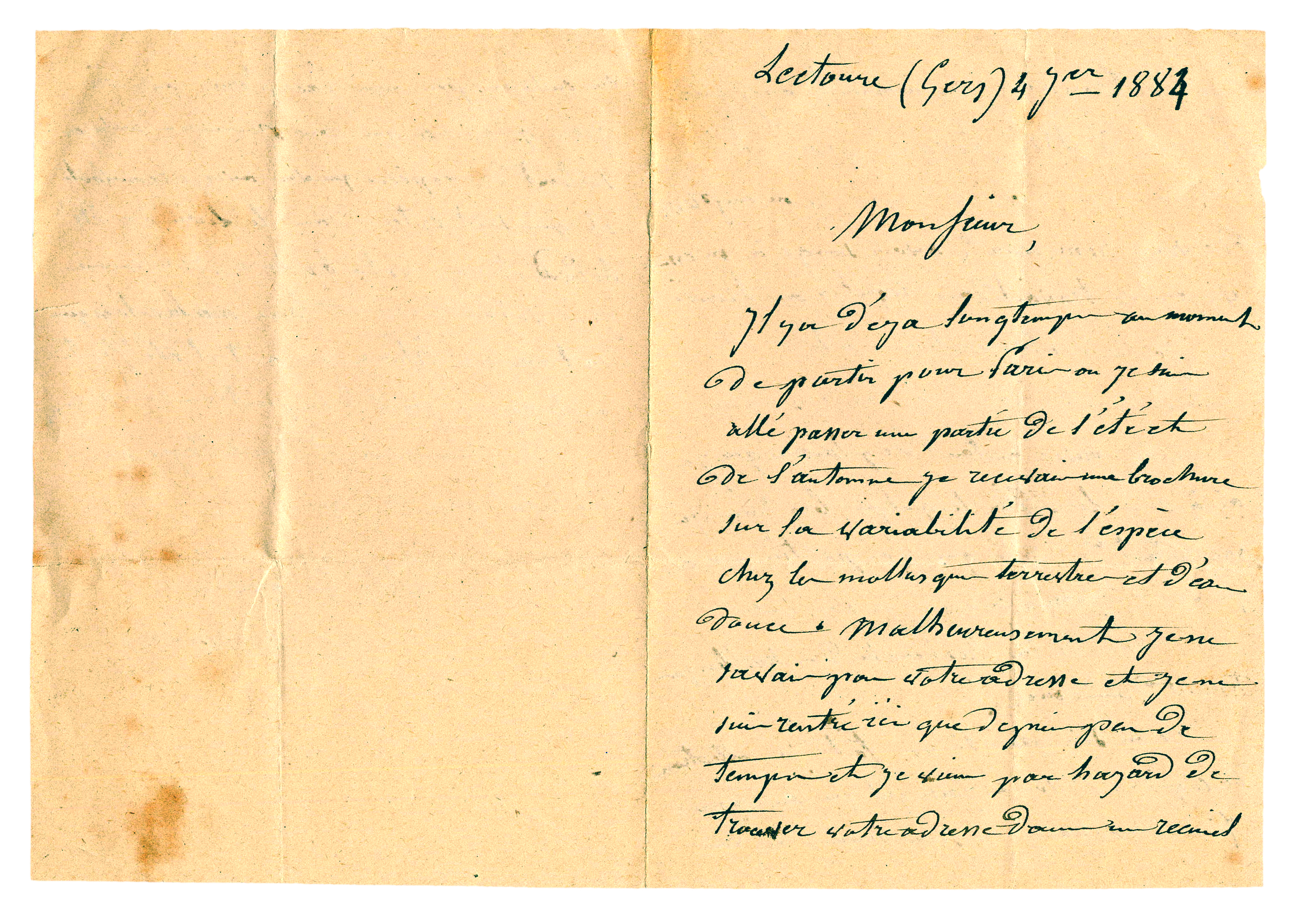 Letter of malacologist Dominique Dupuy, to his Georges Coutagne